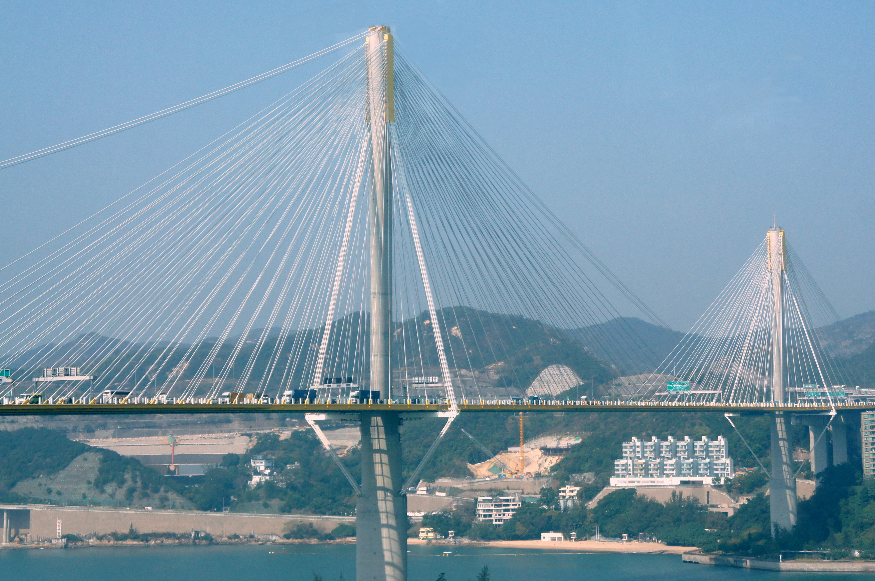 Ting Kau Bridge, Hong Kong.